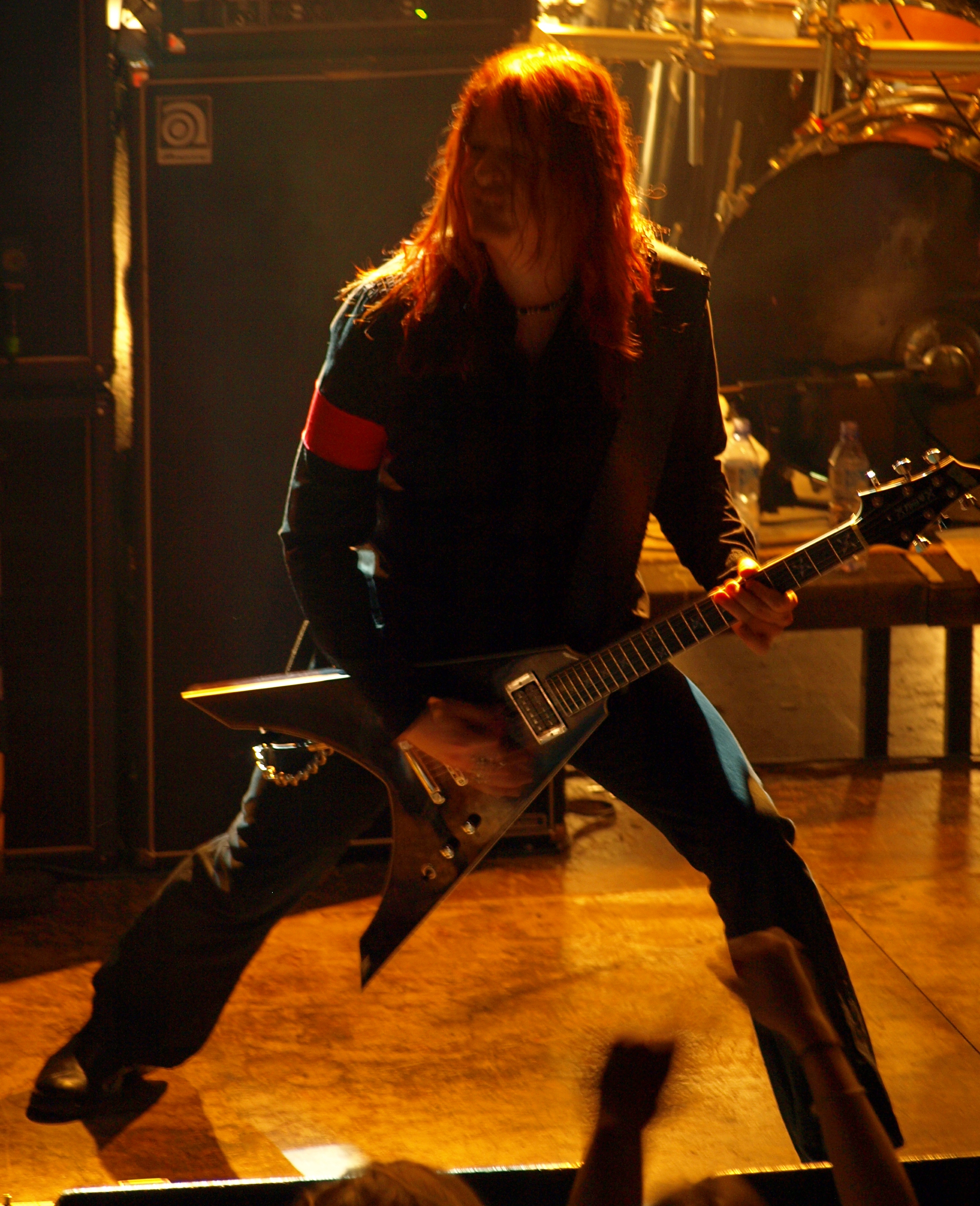 Swedish melodic death metal band Arch Enemy